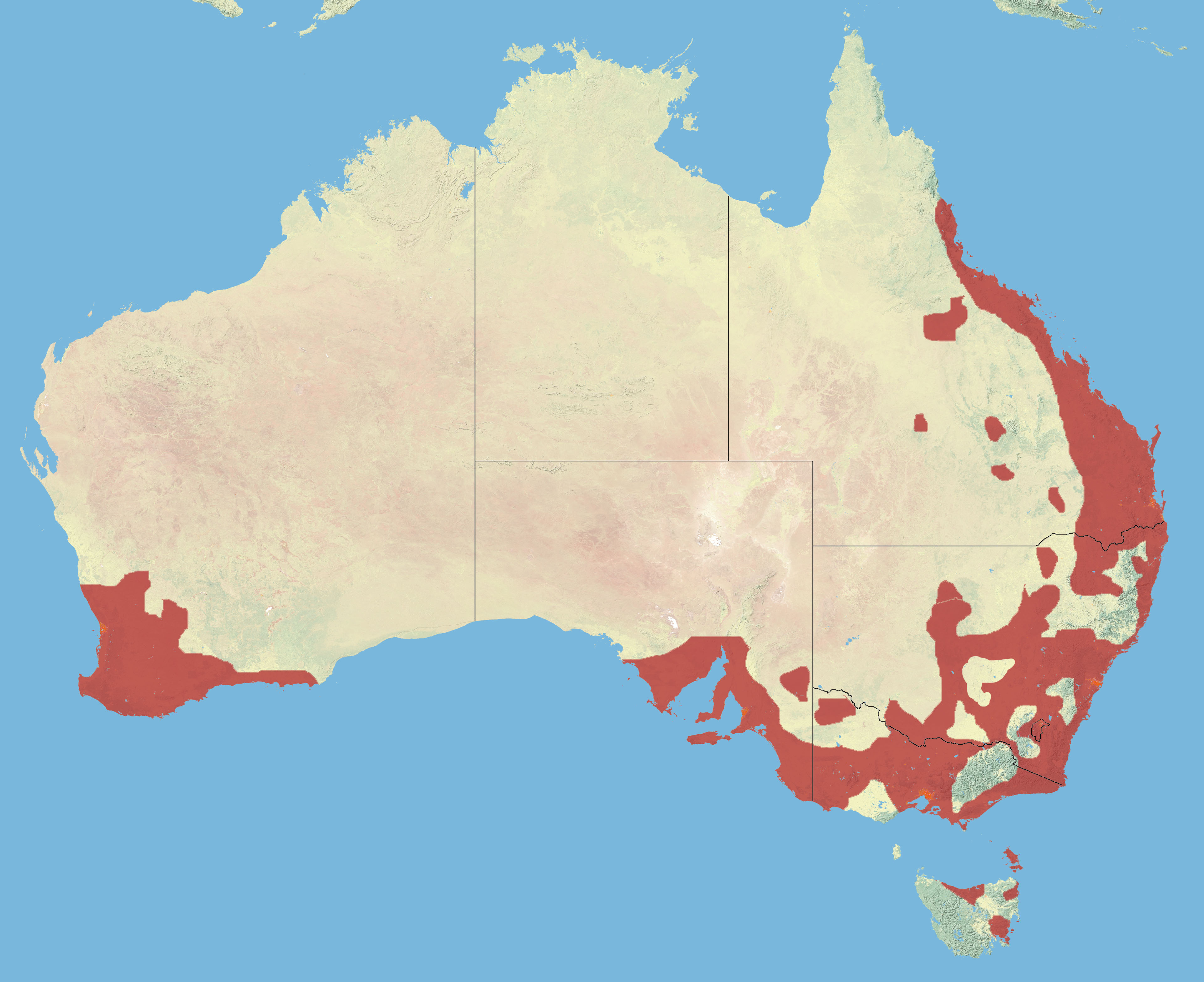 The Distribution of the Painted Button-Quail, as per .au